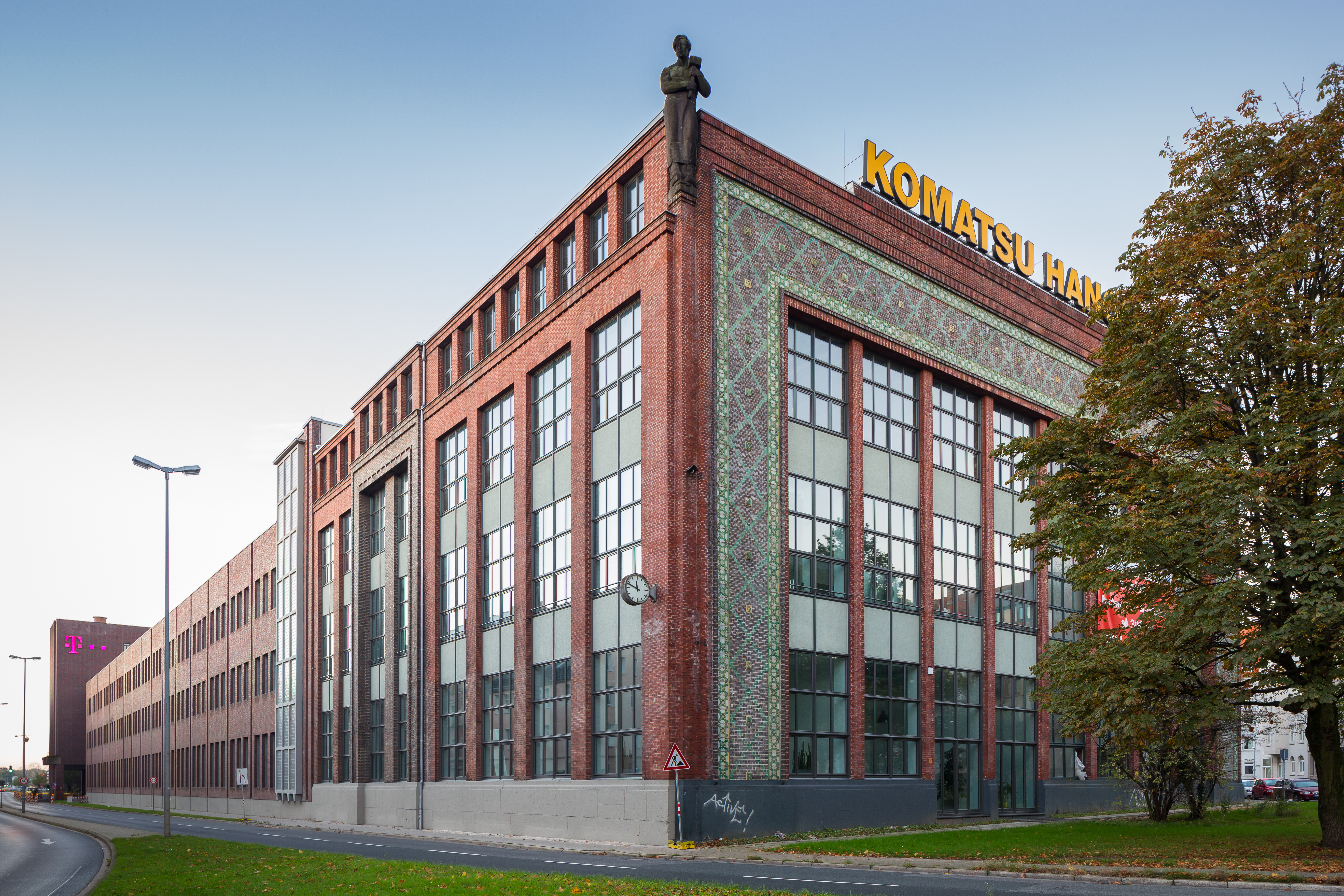 Factory building for the "Kanonenwerkstatt" (= cannon assembly) of former Hanomag company, located at Deisterplatz square in Hanover, Germany.